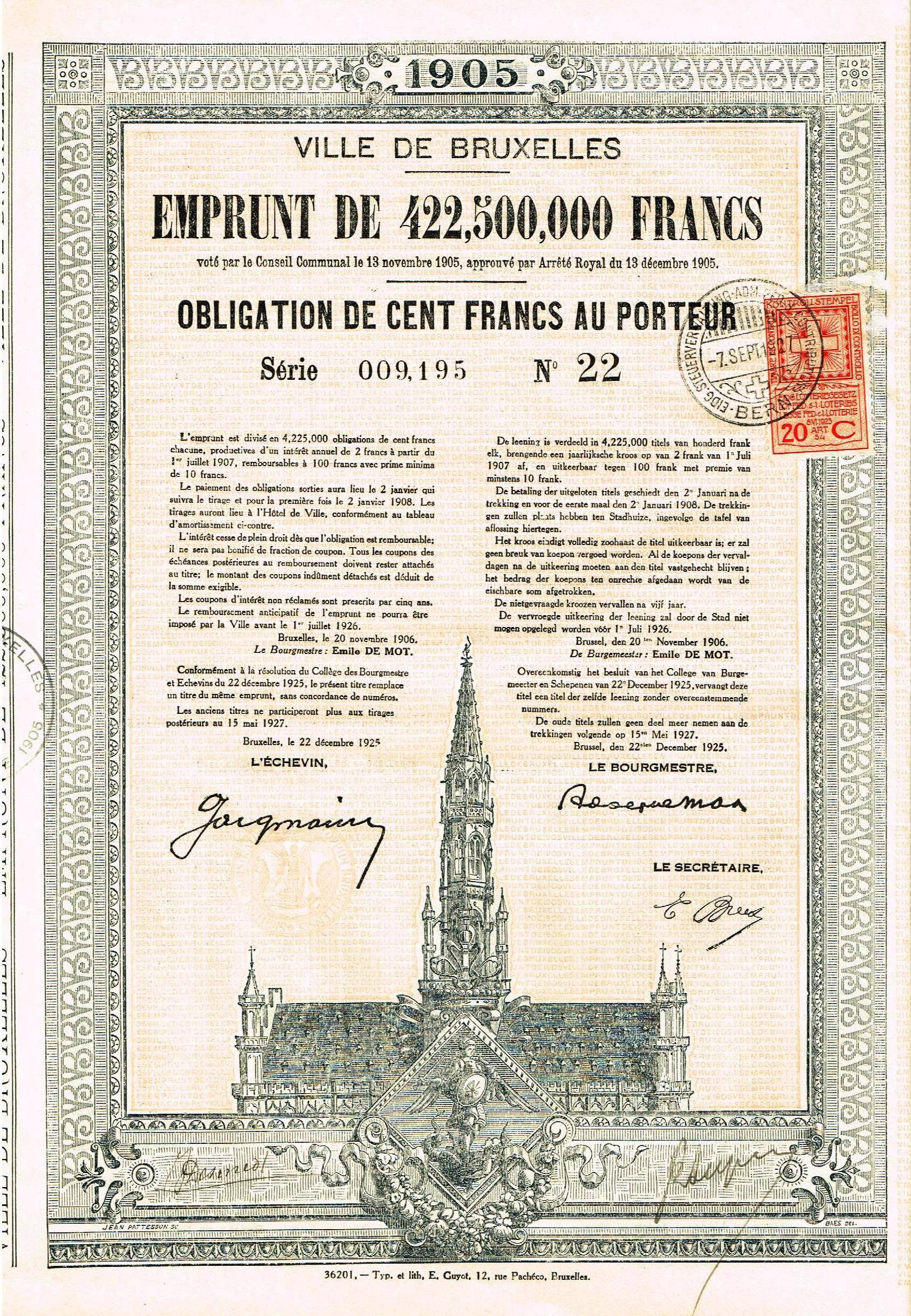 Bond of the City of Brussels, issued 22. December 1925